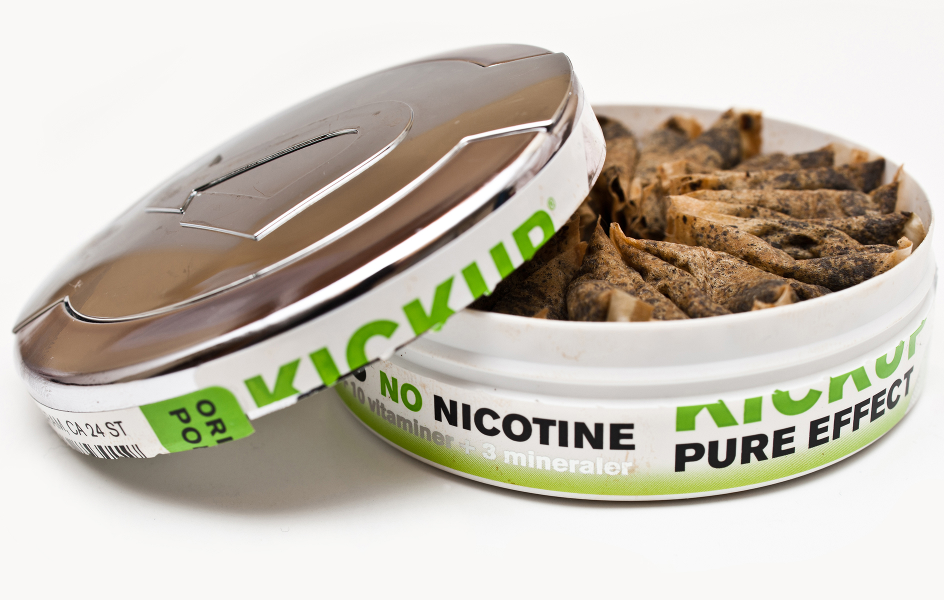 Nicotine and tobacco free portioned snus by brand Kickup